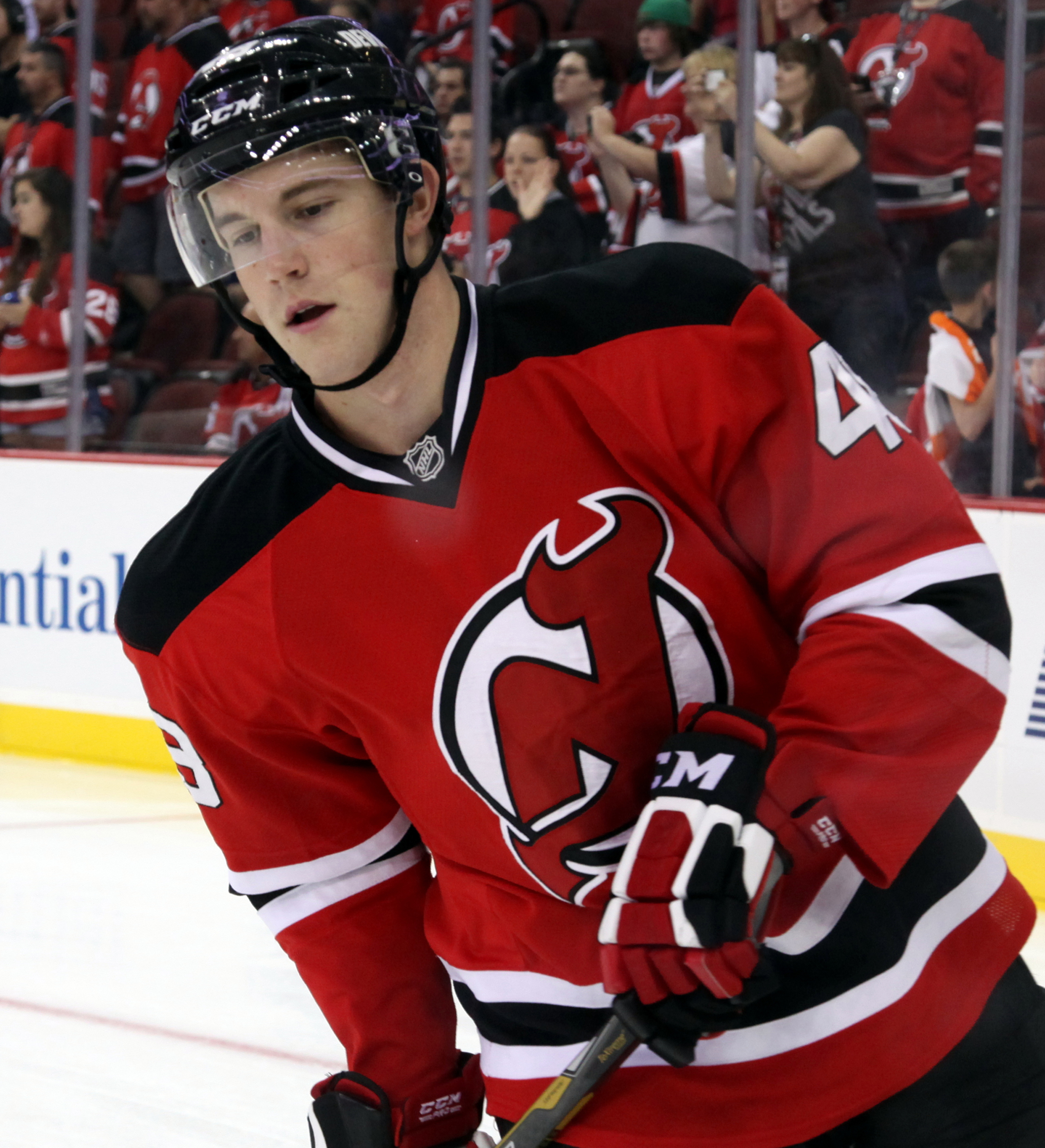 Severson as a member of the New Jersey Devils in October 2014.